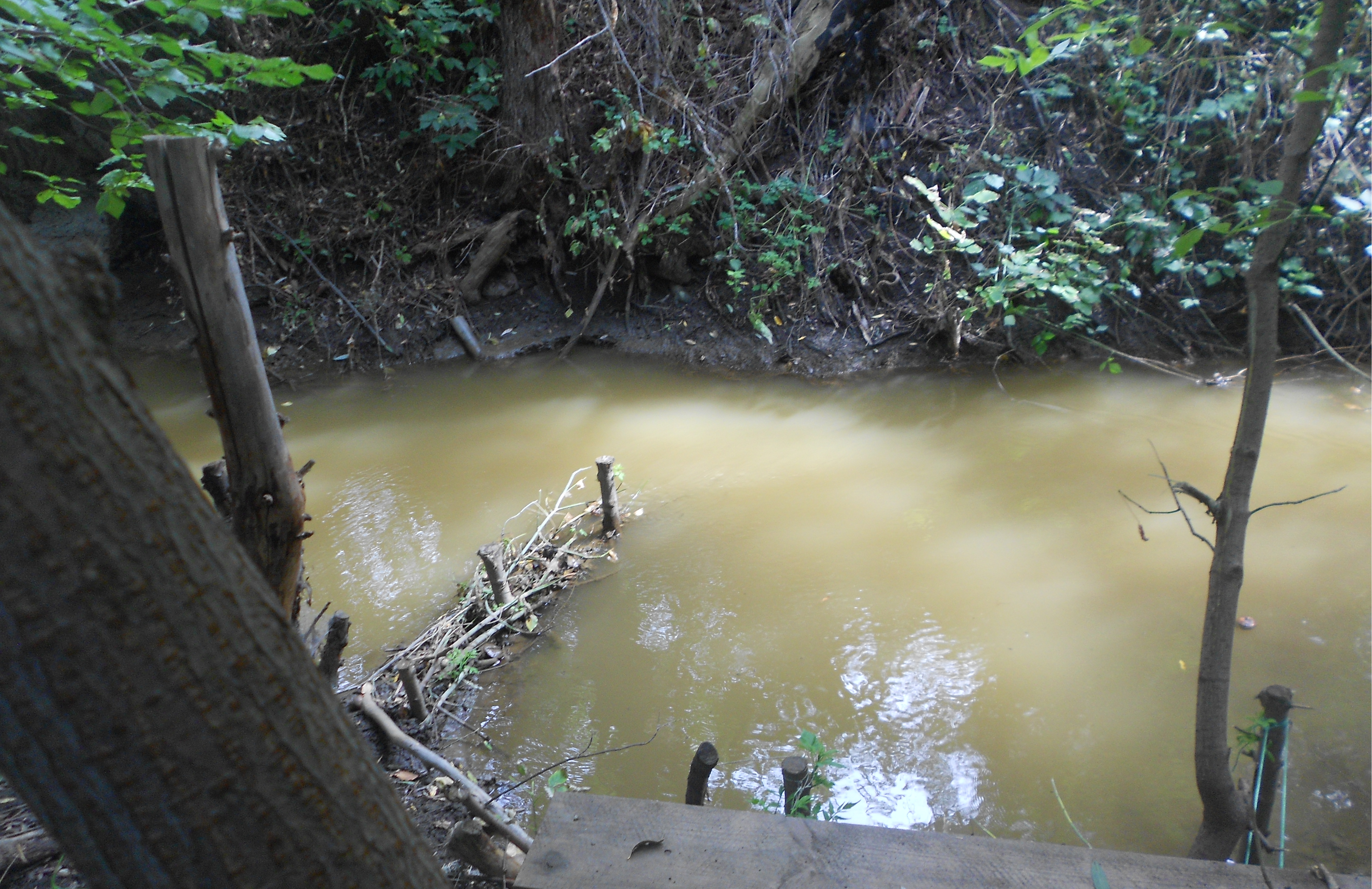 Bilenka in Nignee